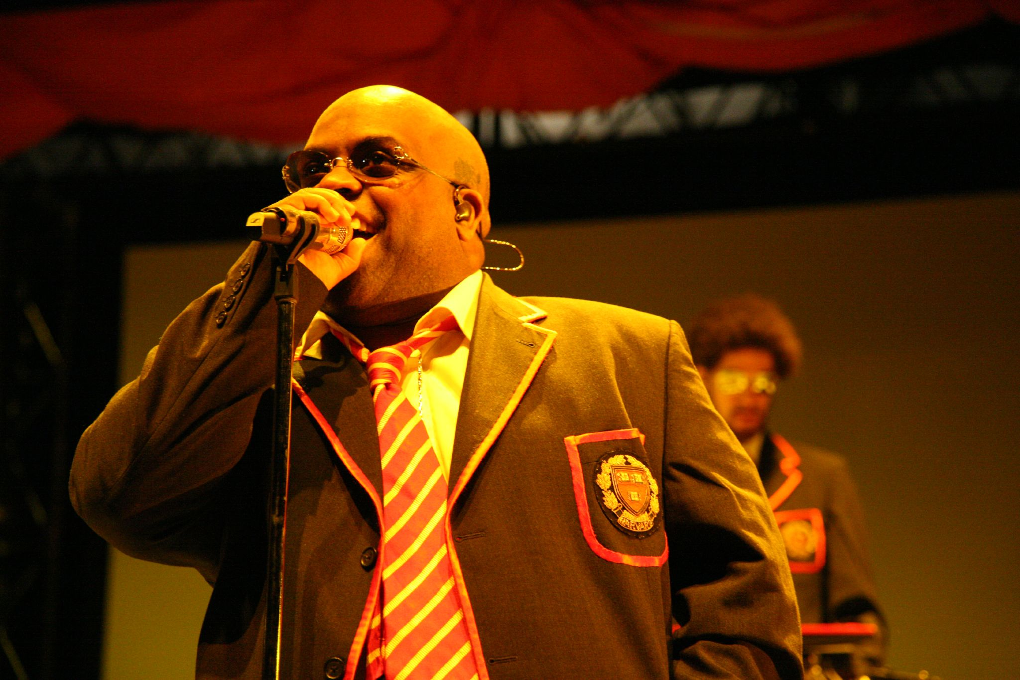 Gnarls Barkley at mini V festival in Melbourne, Victoria (Australia)